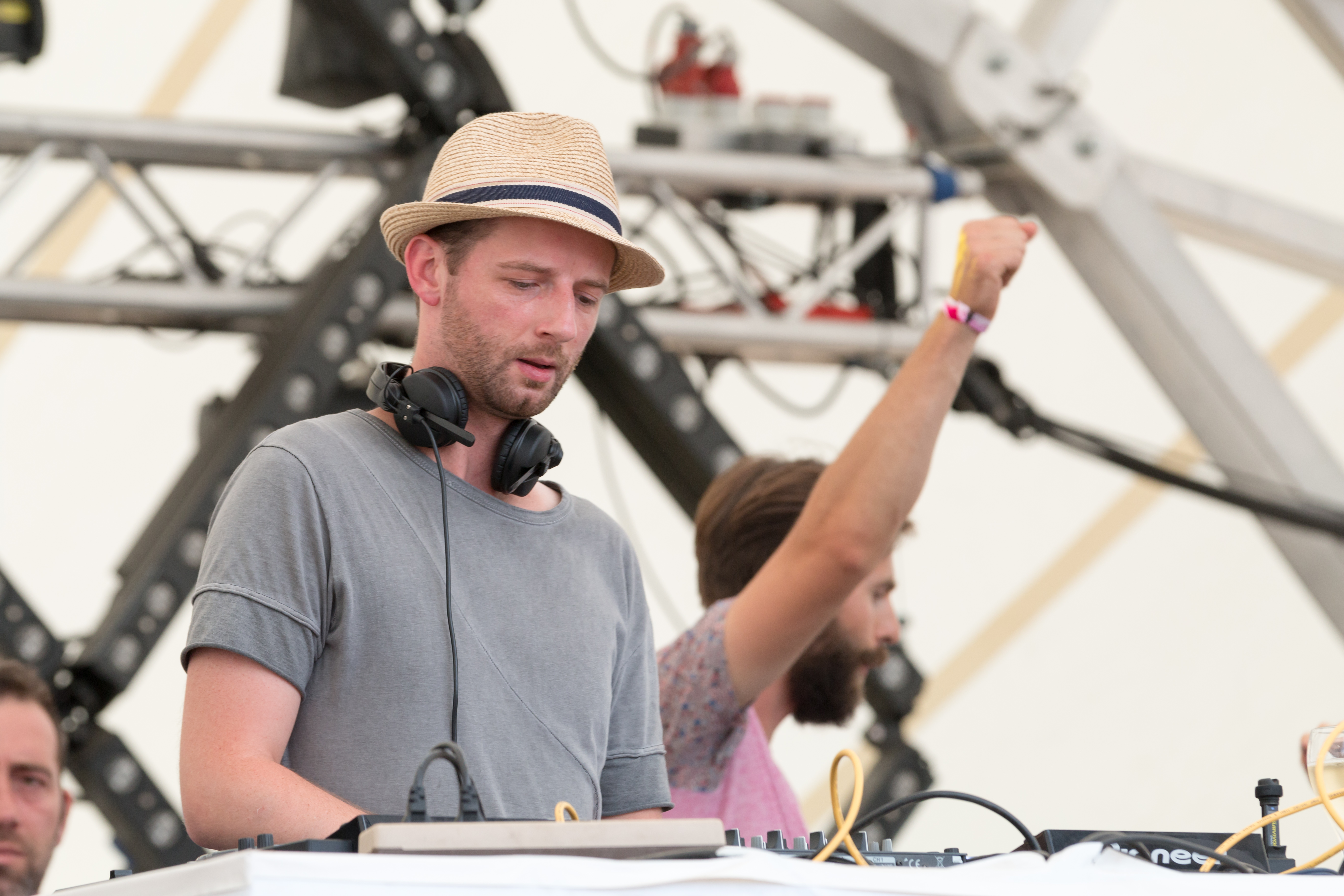 Felix Kröcher performing at the Sea You Festival in Freiburg im Breisgau, Germany, on July 19th, 2015.